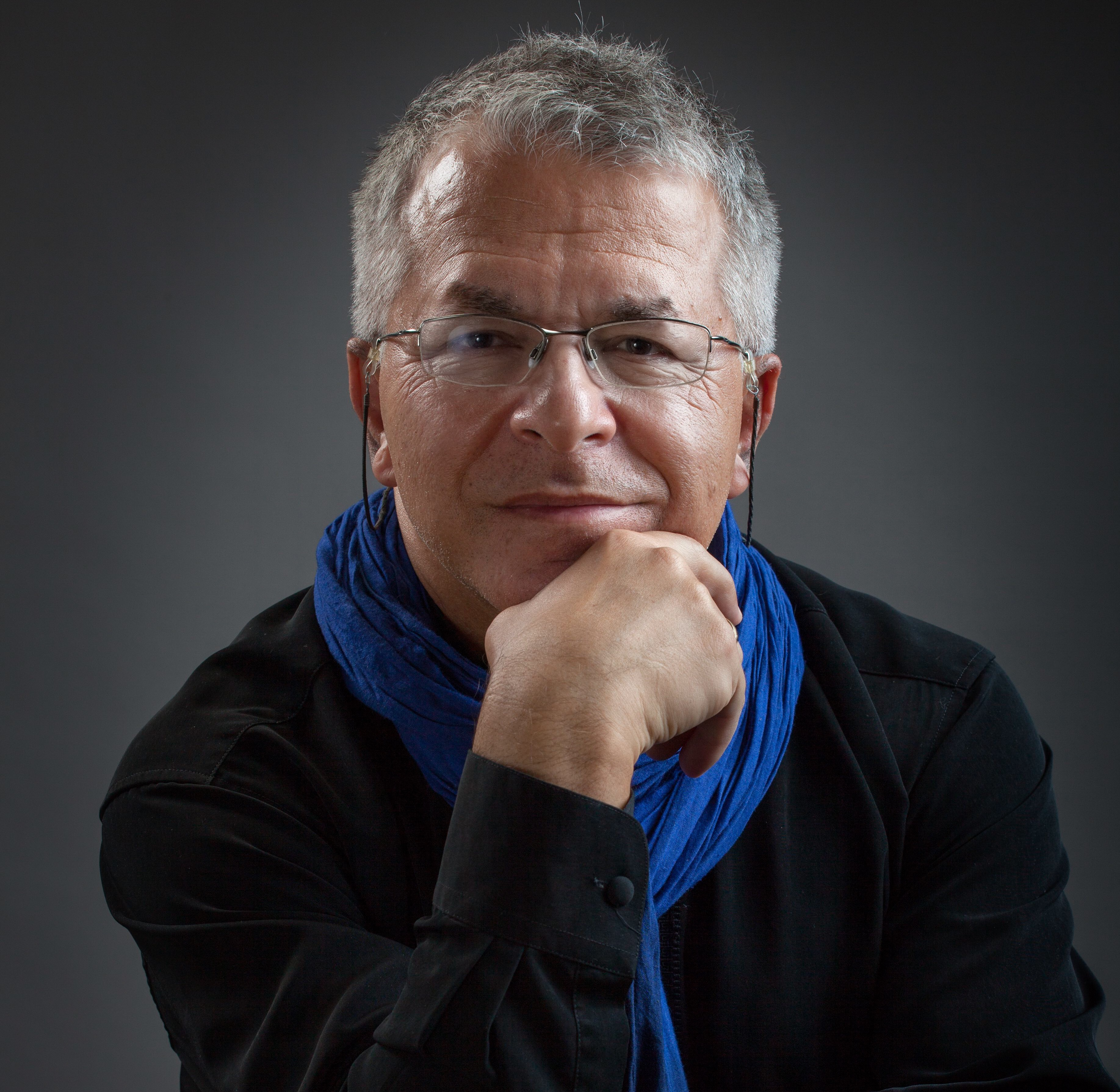 Slawomir Grünberg